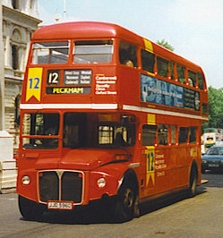 London Central Routemaster bus RML2596 (reg. JJD 596D) route branded for and operating route 12, pictured heading south down Whitehall, en-route to Dulwich. The Cenotaph war memorial is out of shot to the left (see wider angle image).